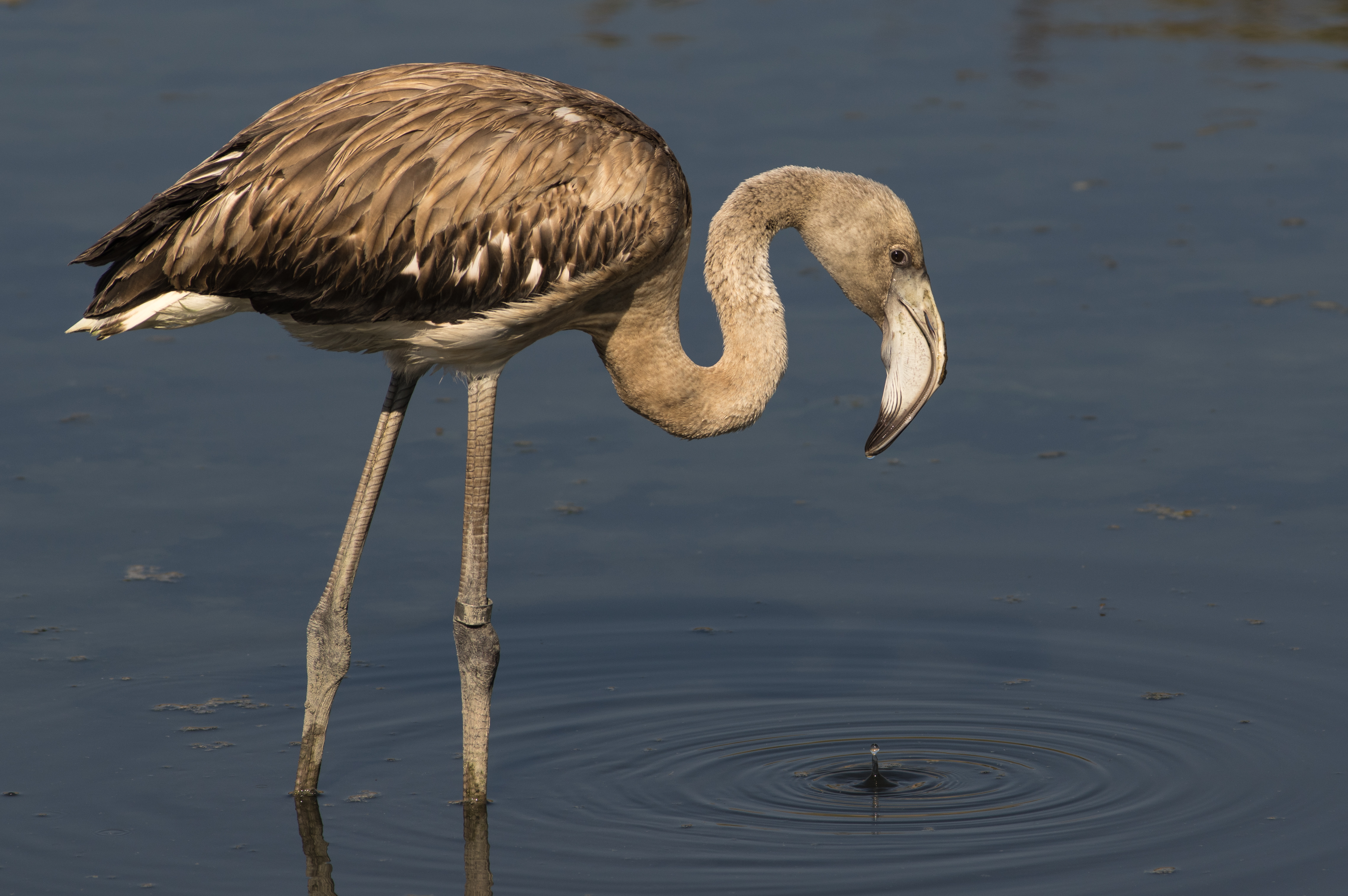 The juvenile greater flamingo (Phoenicopterus roseus) in Għadira Nature Reserve, Malta